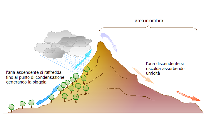 Rainshadow effect